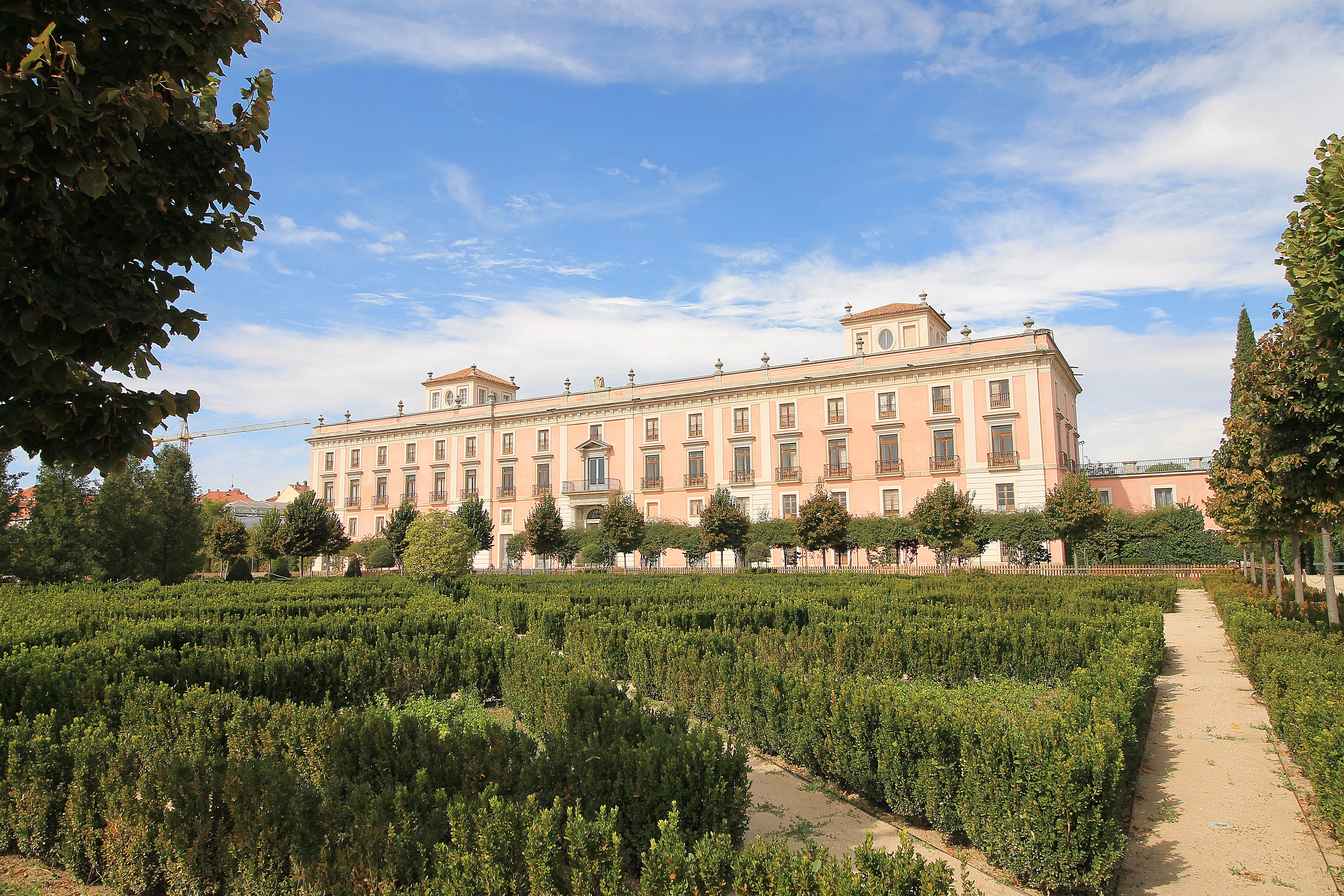 South-east façade and gardens of the Palace of Infante don Luis in Boadilla del Monte (Community of Madrid, Spain).